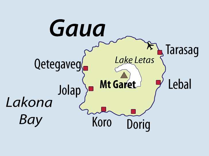 I have drawn this map of the island of Gaua (Vanuatu) based on several other maps showing sufficient precision. I paid special attention to the transcription of place names, based on personal fieldwork on Gaua, and professional knowledge of the local languages.